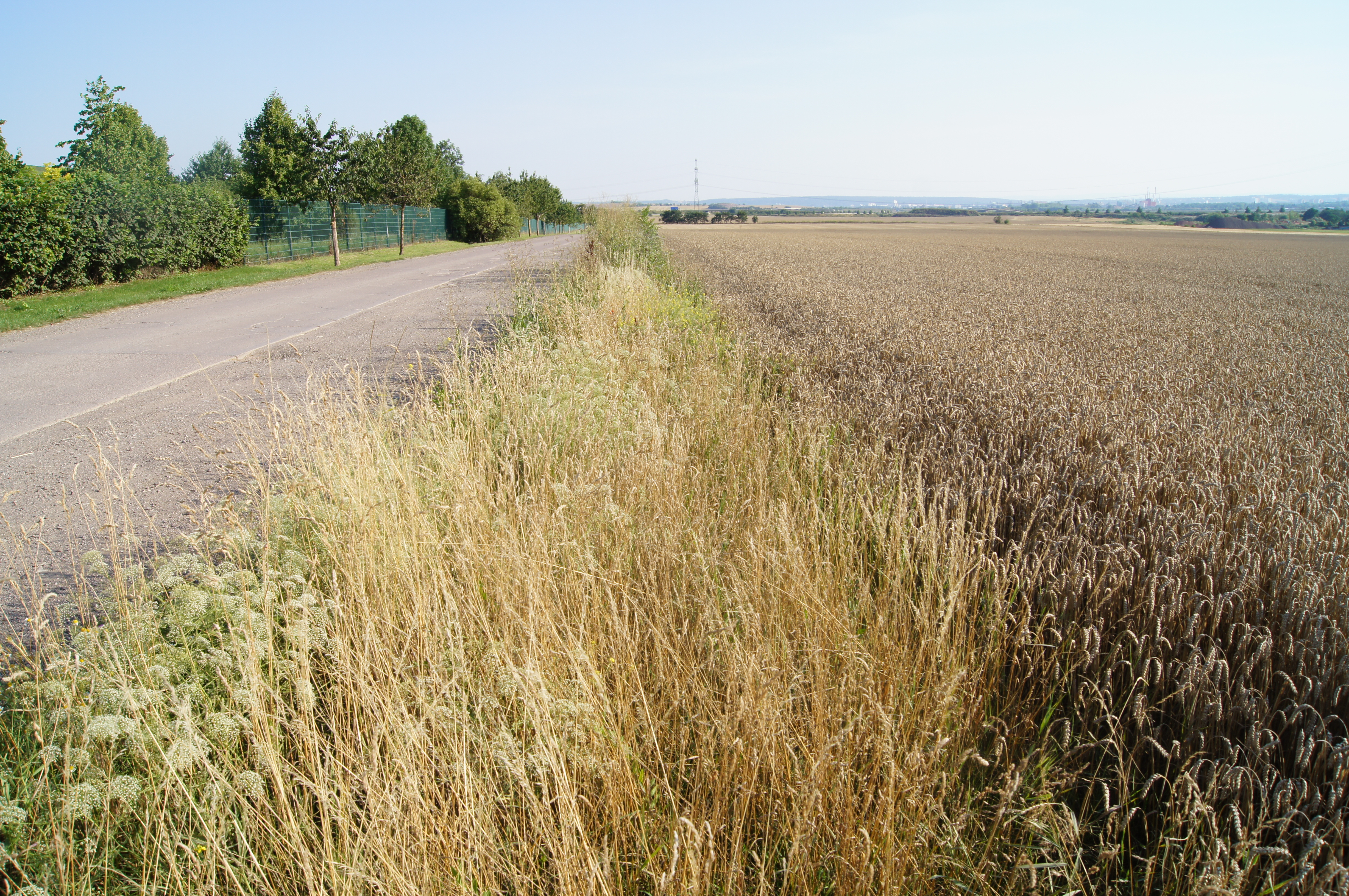 Margin of field at Lutherstein in Stotternheim, Erfurt, Thuringia, Germany